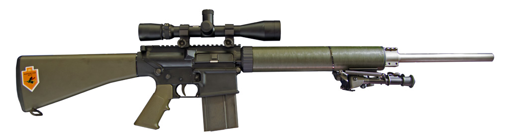 AR-10T belonging to Indonesian Police, Brimob (Mobile Brigade Corps). Kapolri Cup 2012 competition sticker seen on rifle stock. Taken at Jakarta Metropolitan Police Expo, 9 Apr 2016.